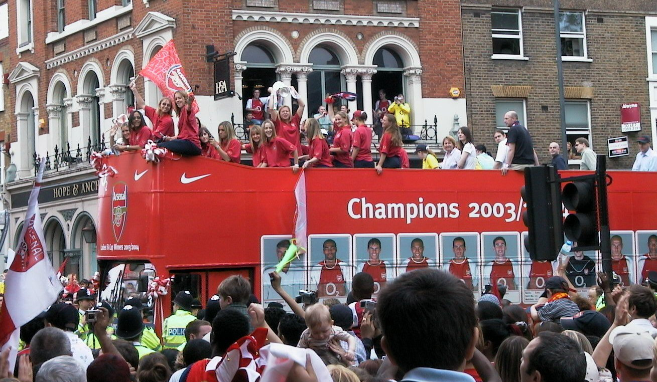 Photograph I have taken at the Arsenal Parade (Islington - 2004) - The Arsenal Female Team